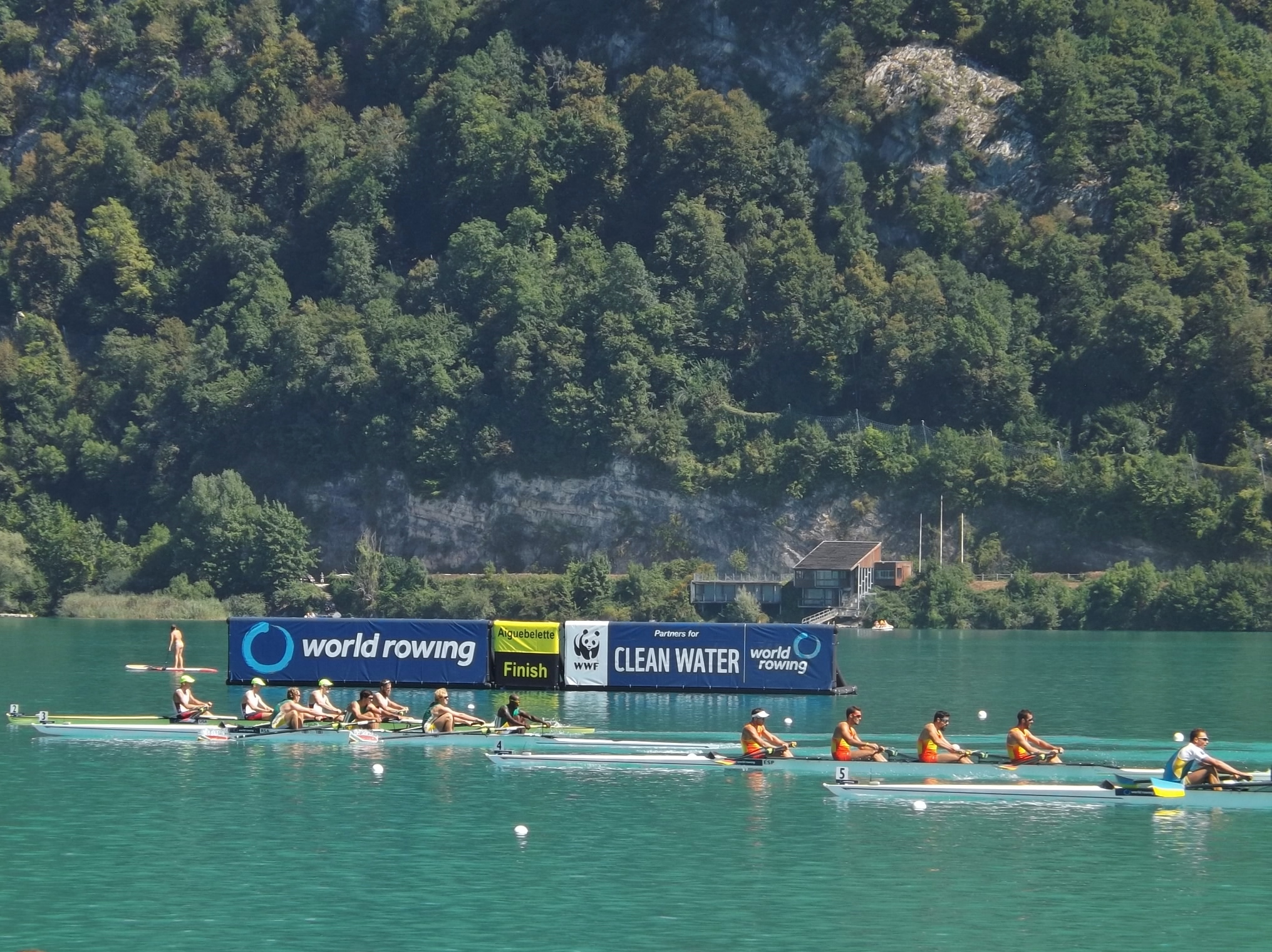 Sight of finish line, during the first day of the 2015 World Rowing Championships on the lac d'Aiguebelette lake, in Savoie, France.